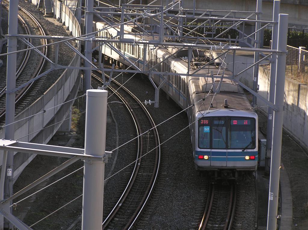 撮影地Place of photo妙典～行徳検車区撮影の状況How to take公道から撮影At public roadトリミングの有無Cropped or not非トリミングNot Cropped内容Description行徳検車区に入庫する列車